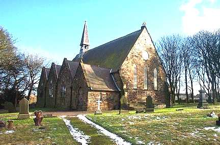 St James' parish church, Coundon, County Durham, seen from the northwest